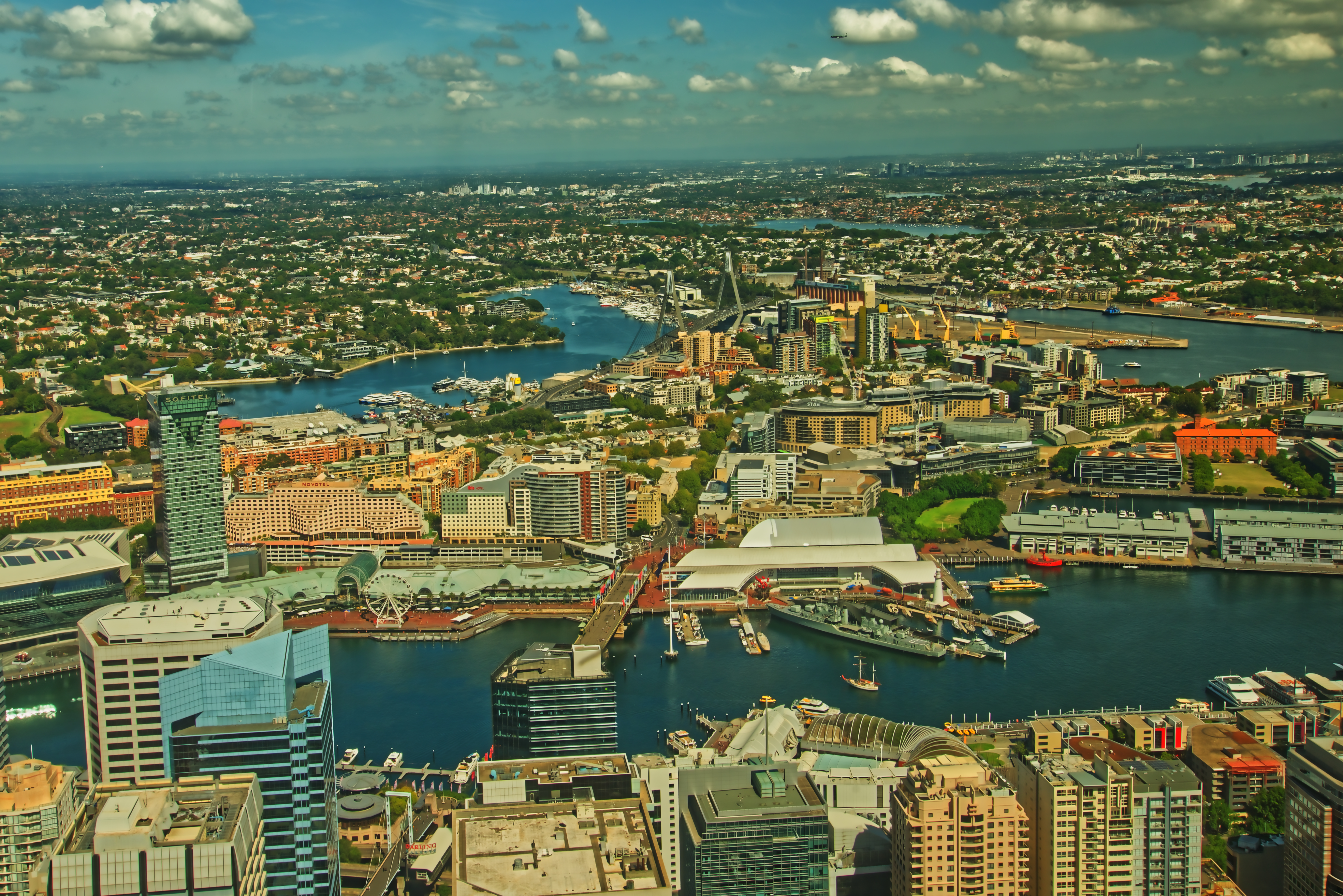 A view Darling Harbour from Sydney Tower on Feb 16, 2019